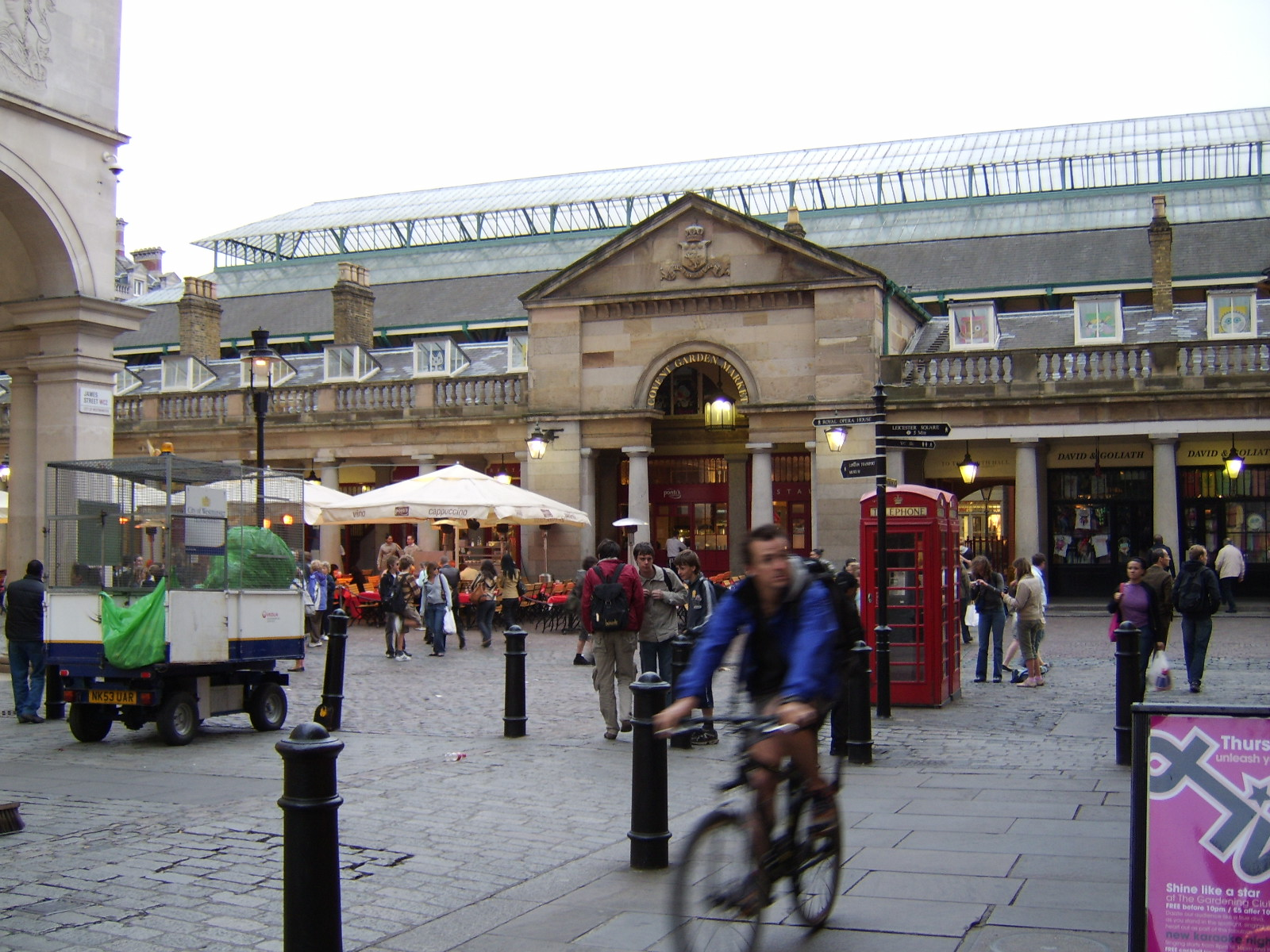 Covent garden market. Photo taken by me 3.5 2007. Use freely.